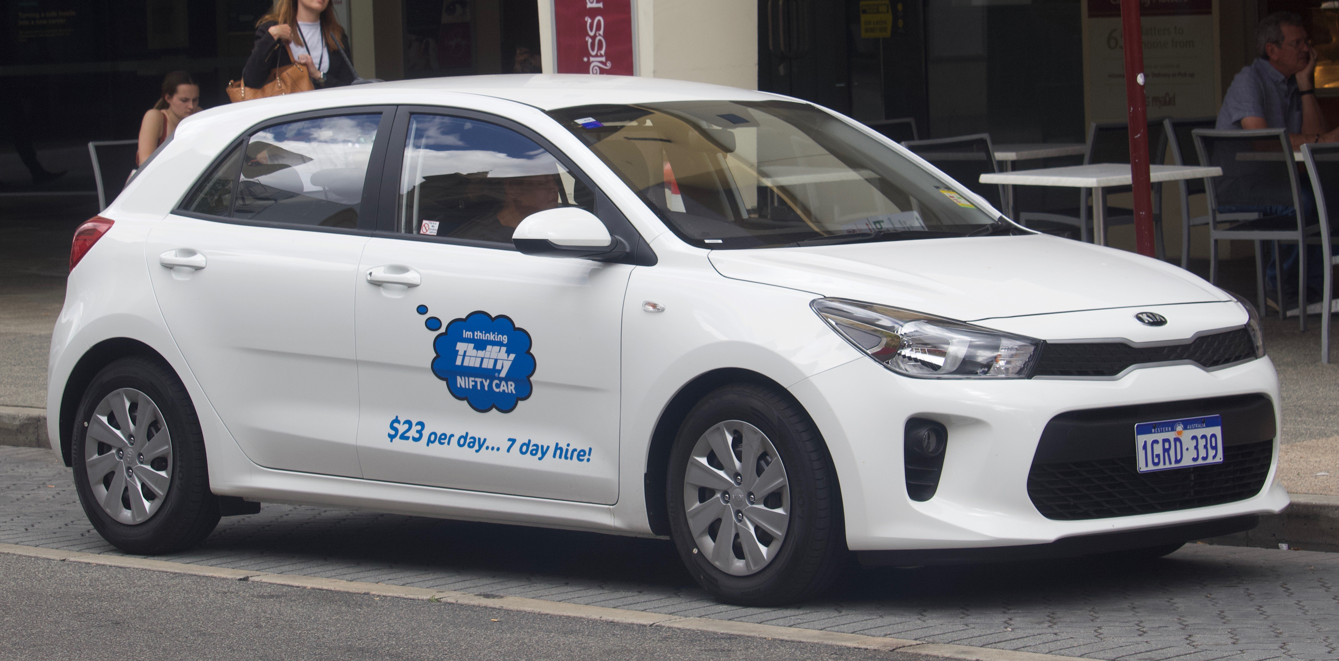 2018 Kia Rio (YB) S 5-door hatchback, Thrifty. Photographed in Perth, Western Australia, Australia.